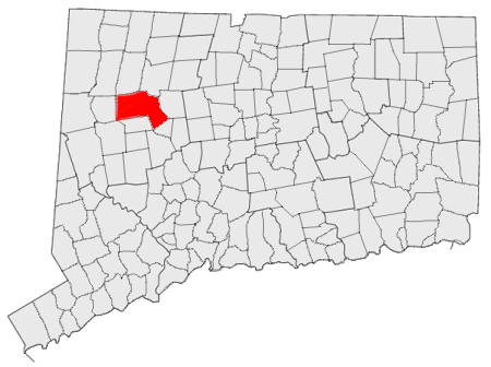 I made this.